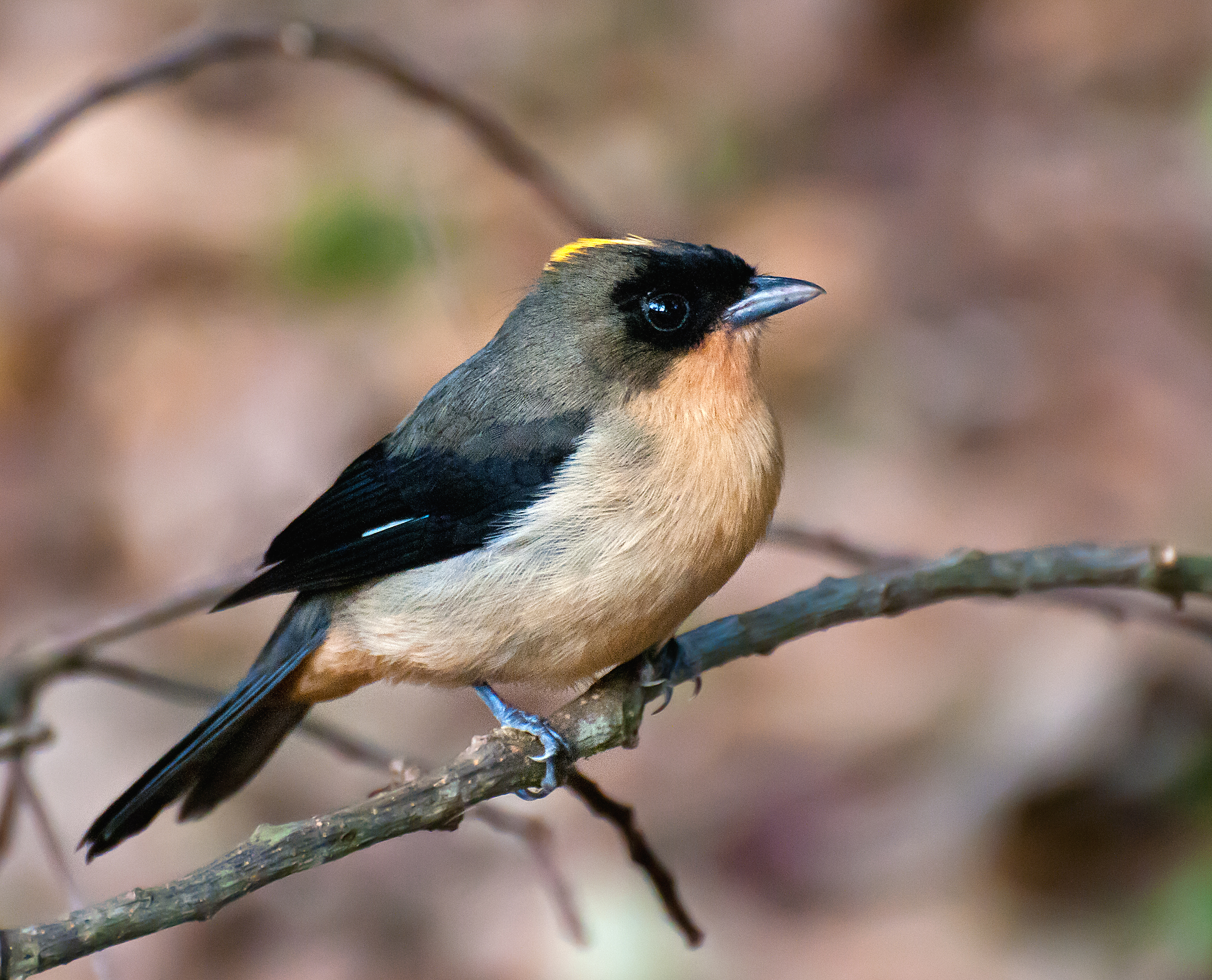 A male Black-goggled Tanager in Piraju, São Paulo, Brazil.